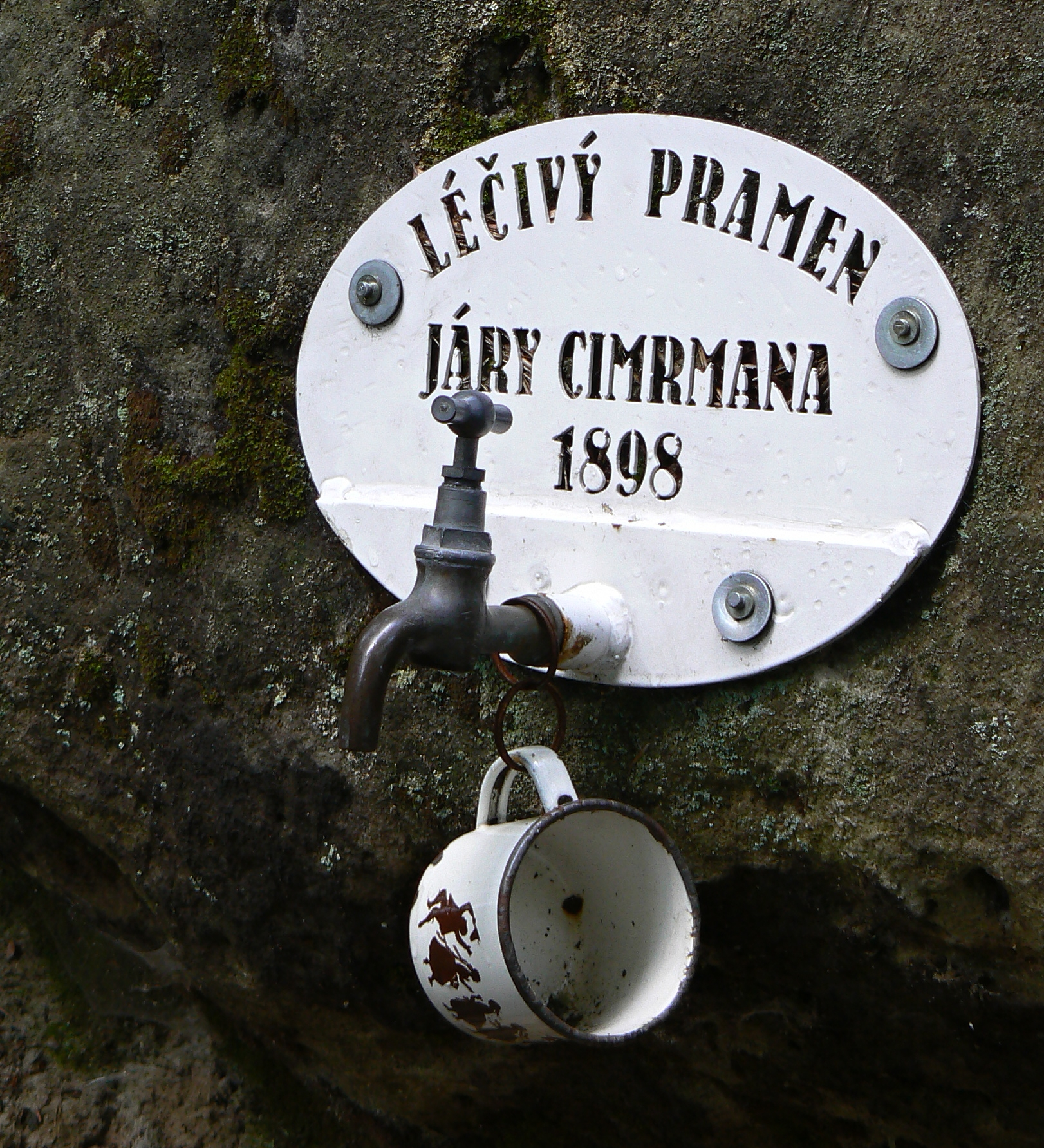 Steram without water :) in Česká Lípa District